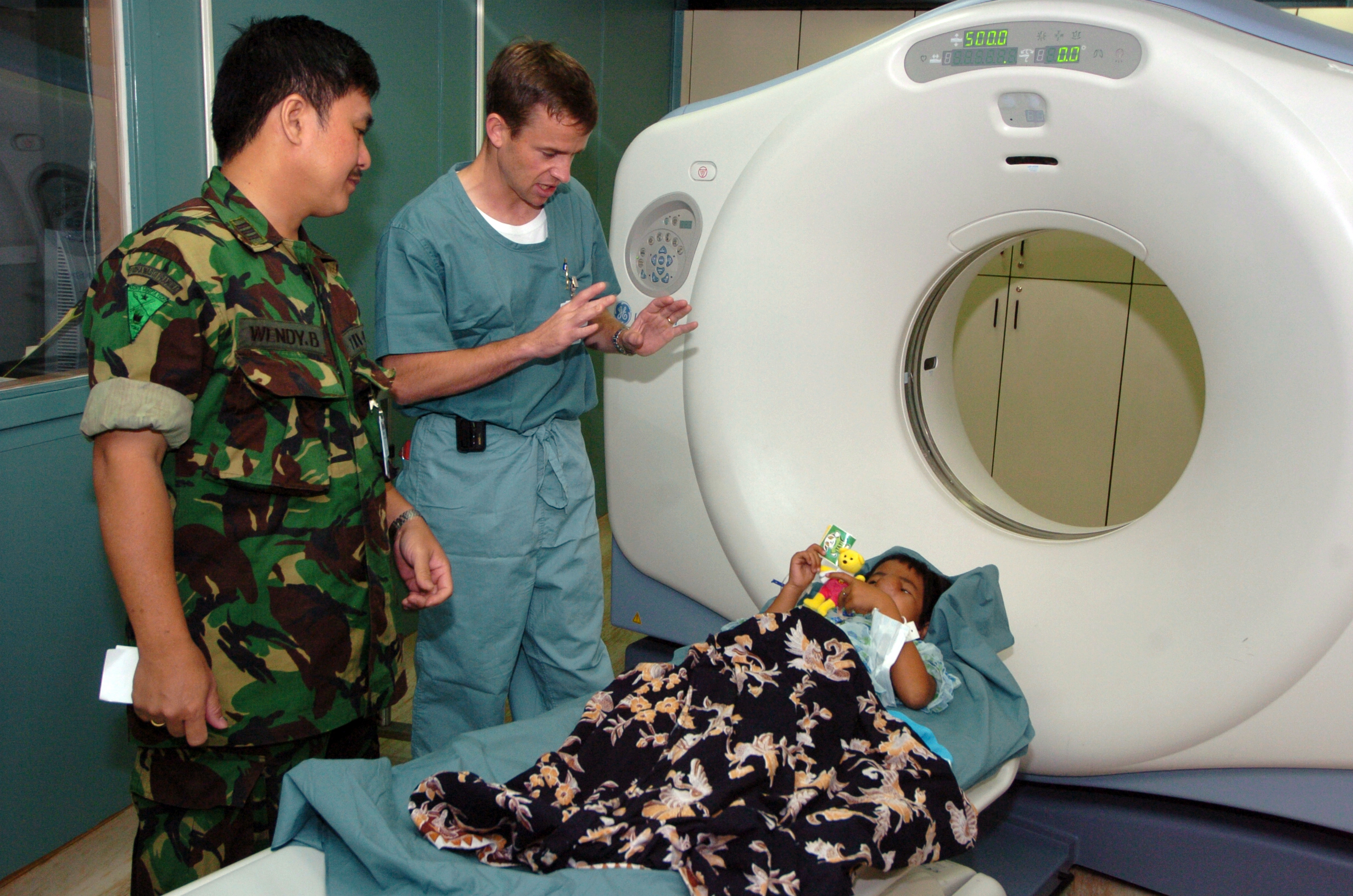 Nias, Indonesia (Apr. 11, 2005) – Lt. Cmdr. Henry Pallatroni, right, and Indonesian Military Capt. Wendy Budiawan discuss an Indonesian patient who is prepared for a Computed Axial Tomography (CAT) scan aboard the Military Sealift Command (MSC) hospital ship USNS Mercy (T-AH 19). At the request of the government of Indonesia, Mercy and the MSC combat stores ship USNS Niagara Falls (T-AFS 3) are on station off the coast of Nias, providing assistance as determined appropriate and necessary with earthquake disaster relief efforts and provide medical assistance to those in need. U.S. Navy photo by Photographer's Mate 3rd Class Rebecca J. Moat (RELEASED)